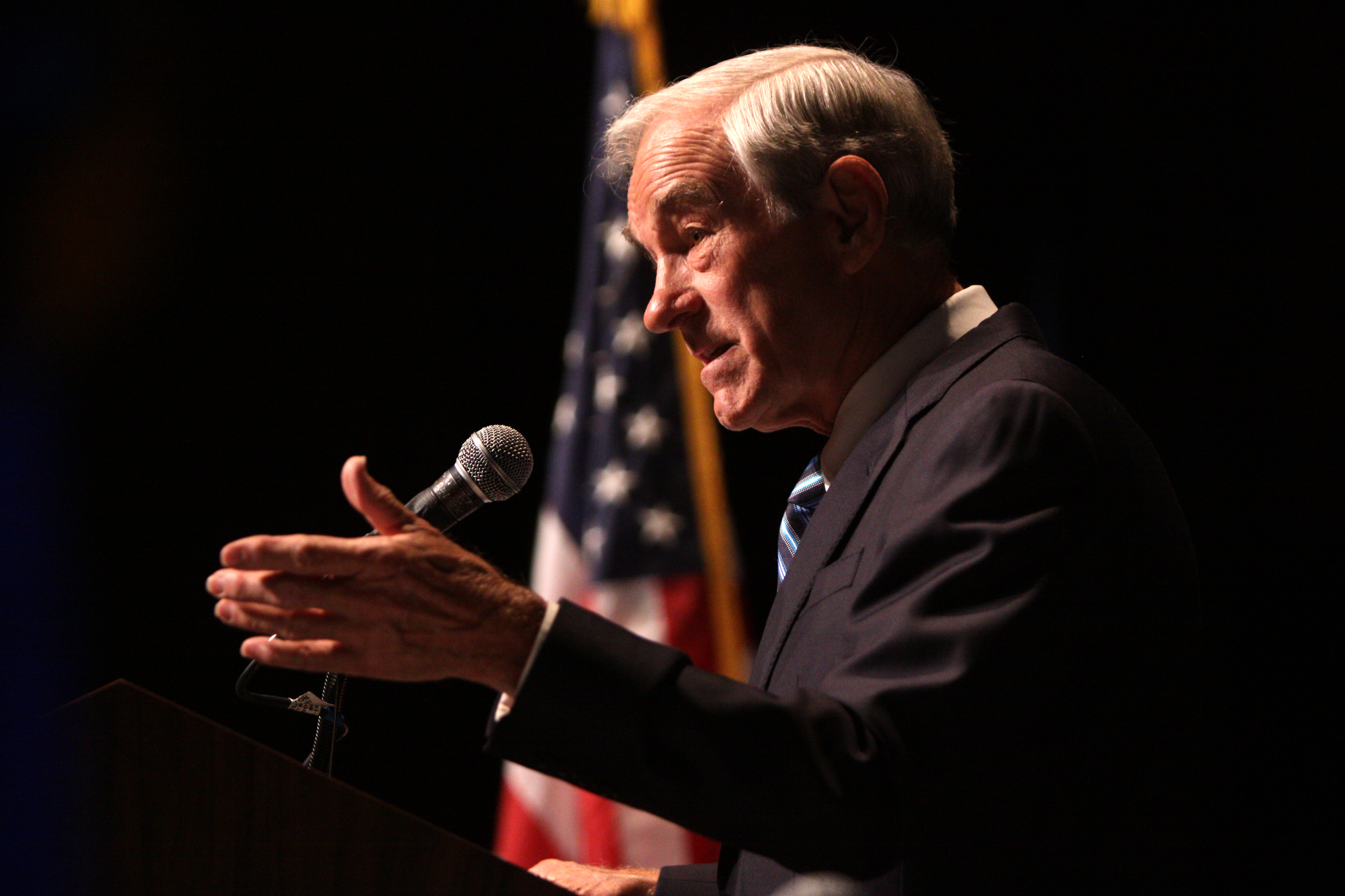 Ron Paul speaking at LPAC 2011 in Reno, Nevada.